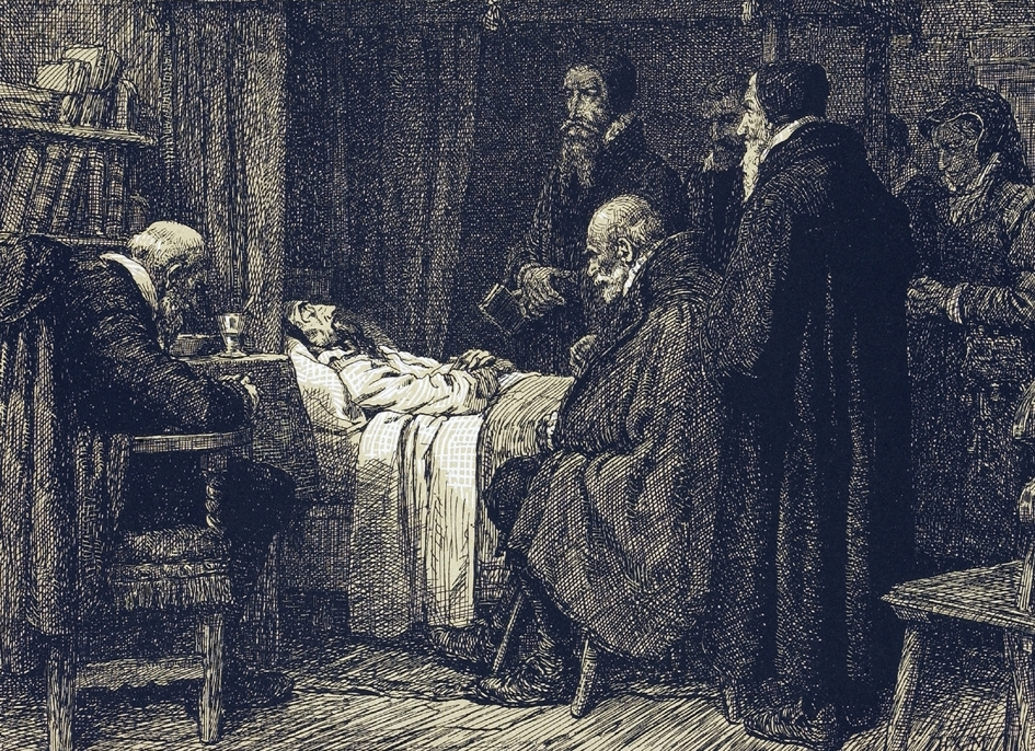 John Calvin's death 1564 in Geneva.